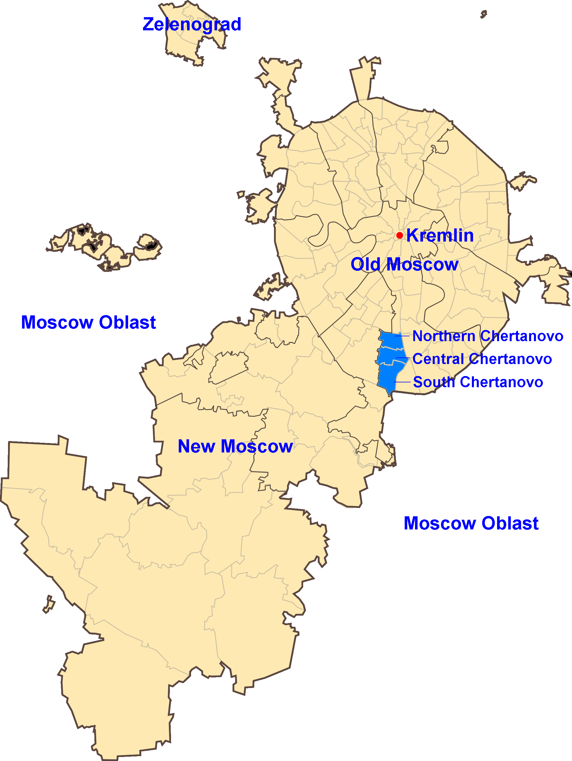 Chertanovo area on Moscow map